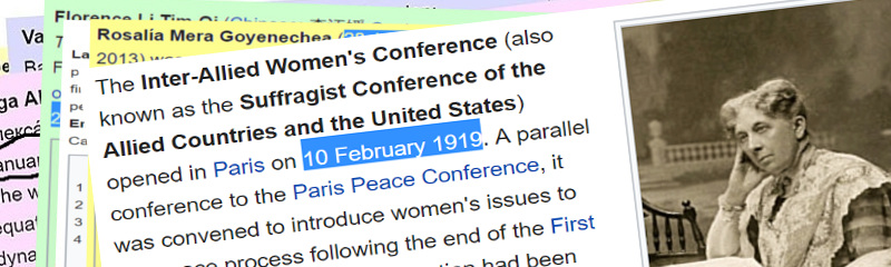 from en wiki screenshots